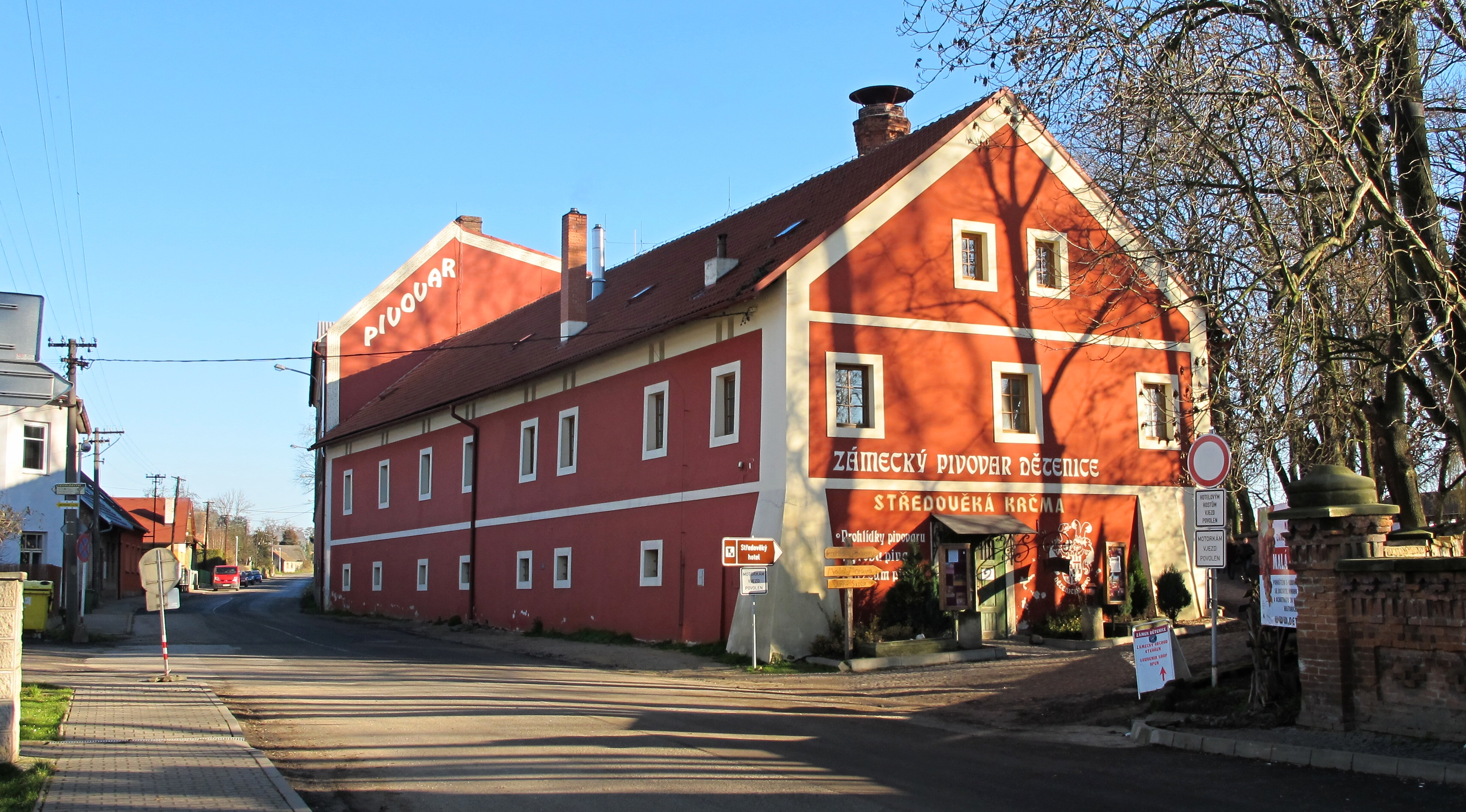 medieval tavern and brewery in Dětenice, Jičín District